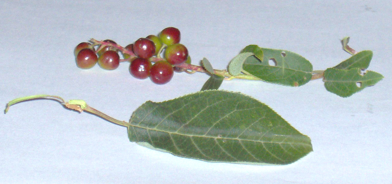 Prunus serotina or Blackcherry is distinguished from Prunus Virginiana chokecherry, by the leaves the first, blackcherry has numerous blunt edges along margin and is dark green and smooth. The blackcherry tree is up to 20 meter in height. The chokecherry leaf has numerous sharp edges along margin and is shiny and dark green. The chokecherry is a bush up to 8 meter in height, with reddish brown bark. Source Edible wild plants A North American field guide. In Saskatchewan we have bushes and not 20 meter trees. A photo of the bush is at Image:SK-Prunus.jpg